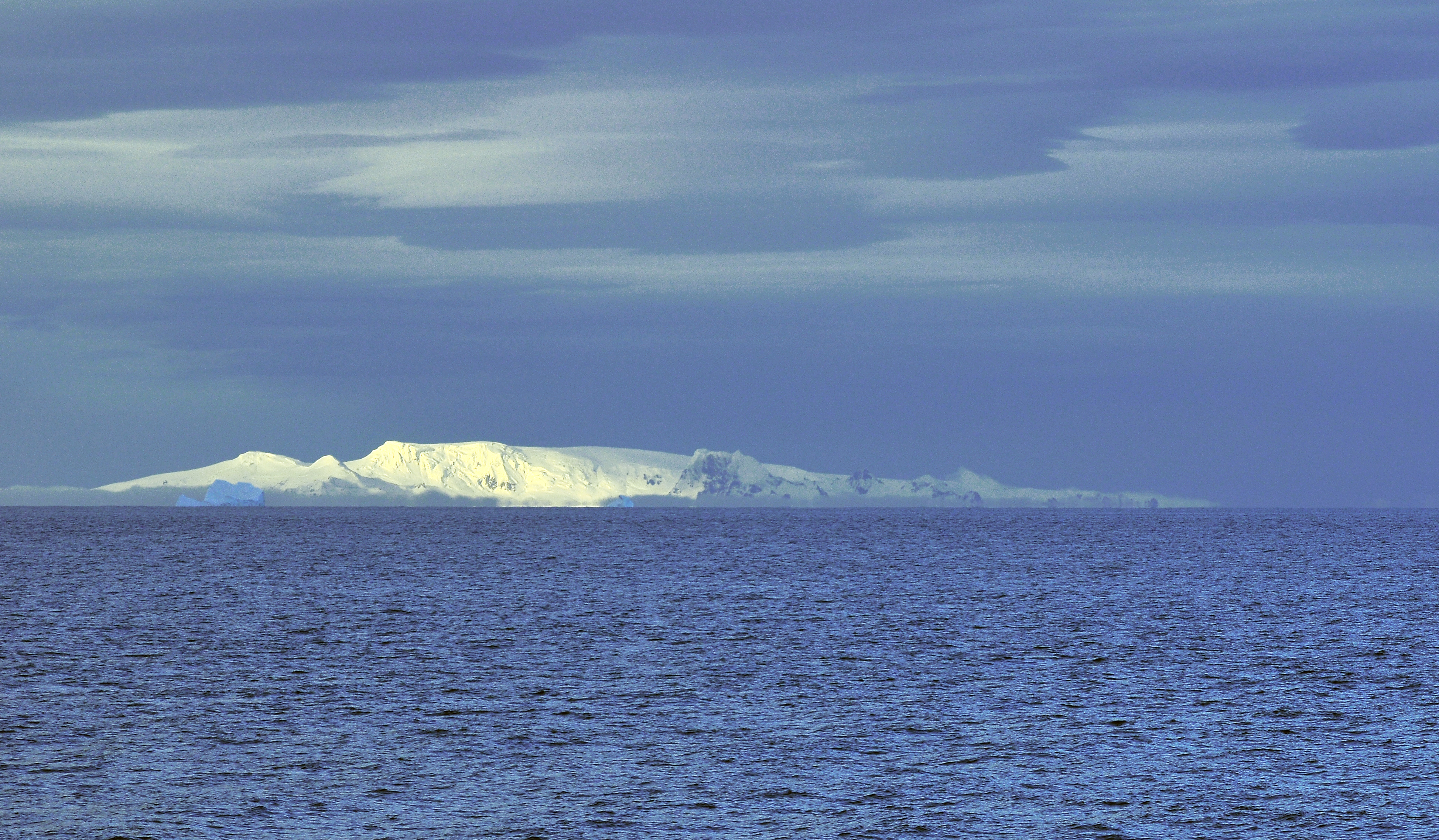 An island North of Bransfield Strait, South Shetland Islands, Antarctica